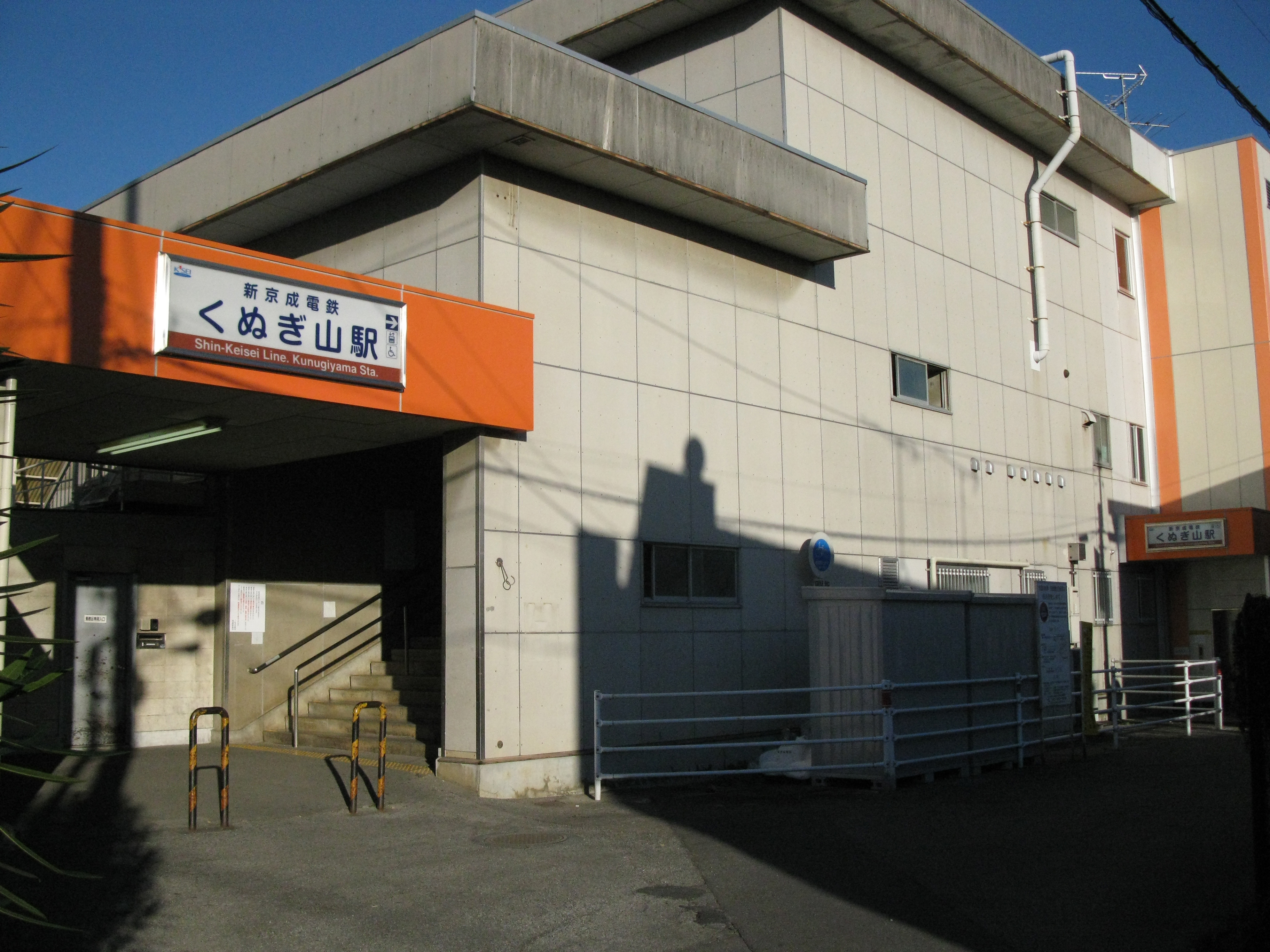 Kunugiyama Station east entrance (Shin-Keisei Electric Railway Shin-Keisei Line)